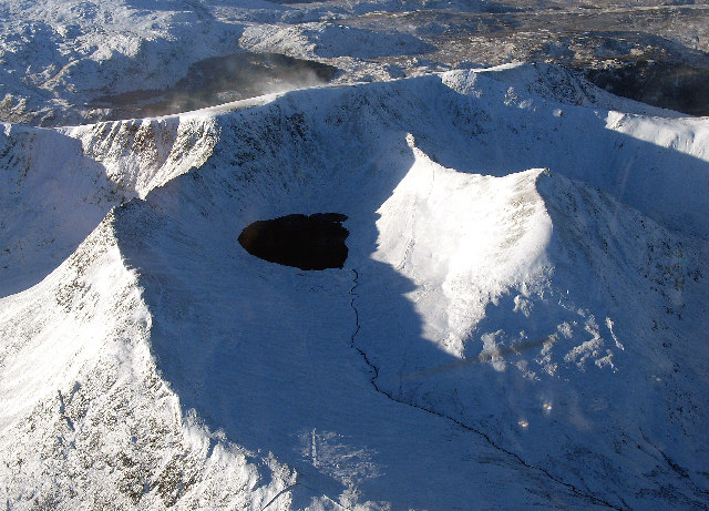 Helvellyn, Cumbria, Great Britain - Striding Edge, Red Tarn, Red Tarn Beck, Helvellyn, Swirral Edge and Castye Cam are shown in their winter coat of snow.